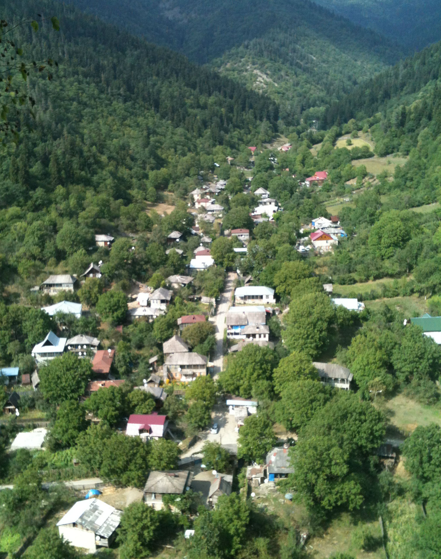 Timotesubani village, Borjomi district, Georgia